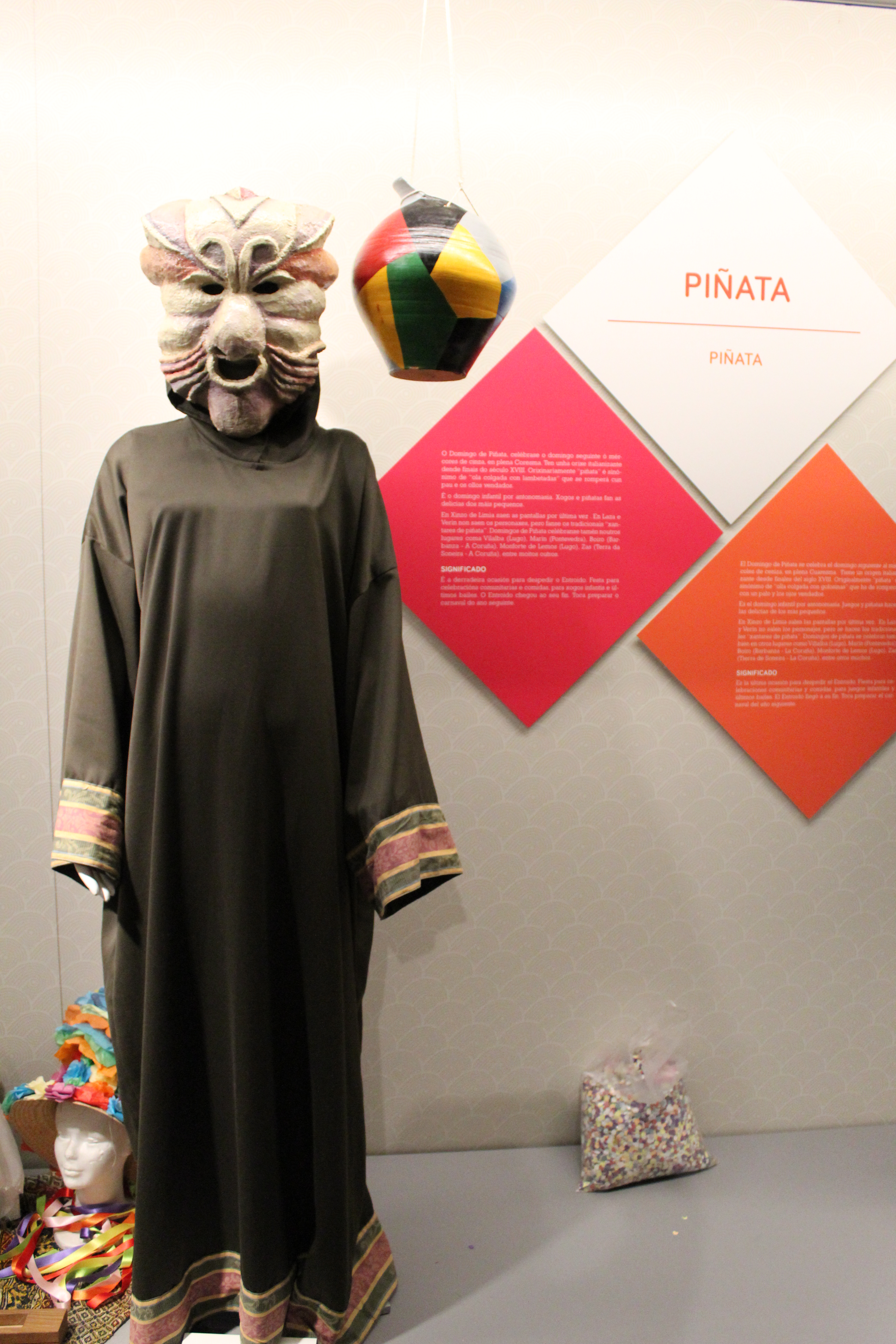 Traxe típico de Celanova